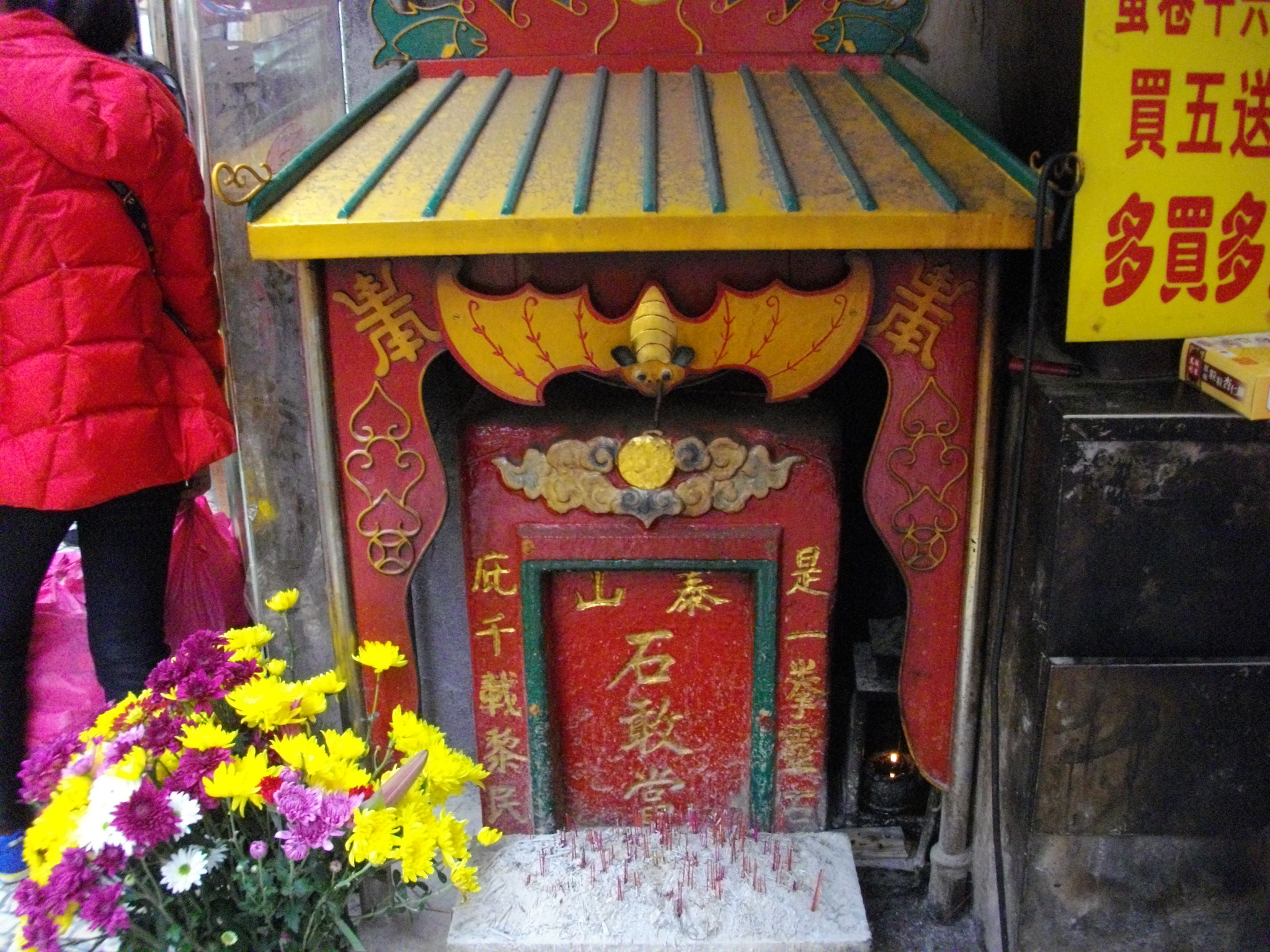 Spirit tablet for Shigandang in Macau